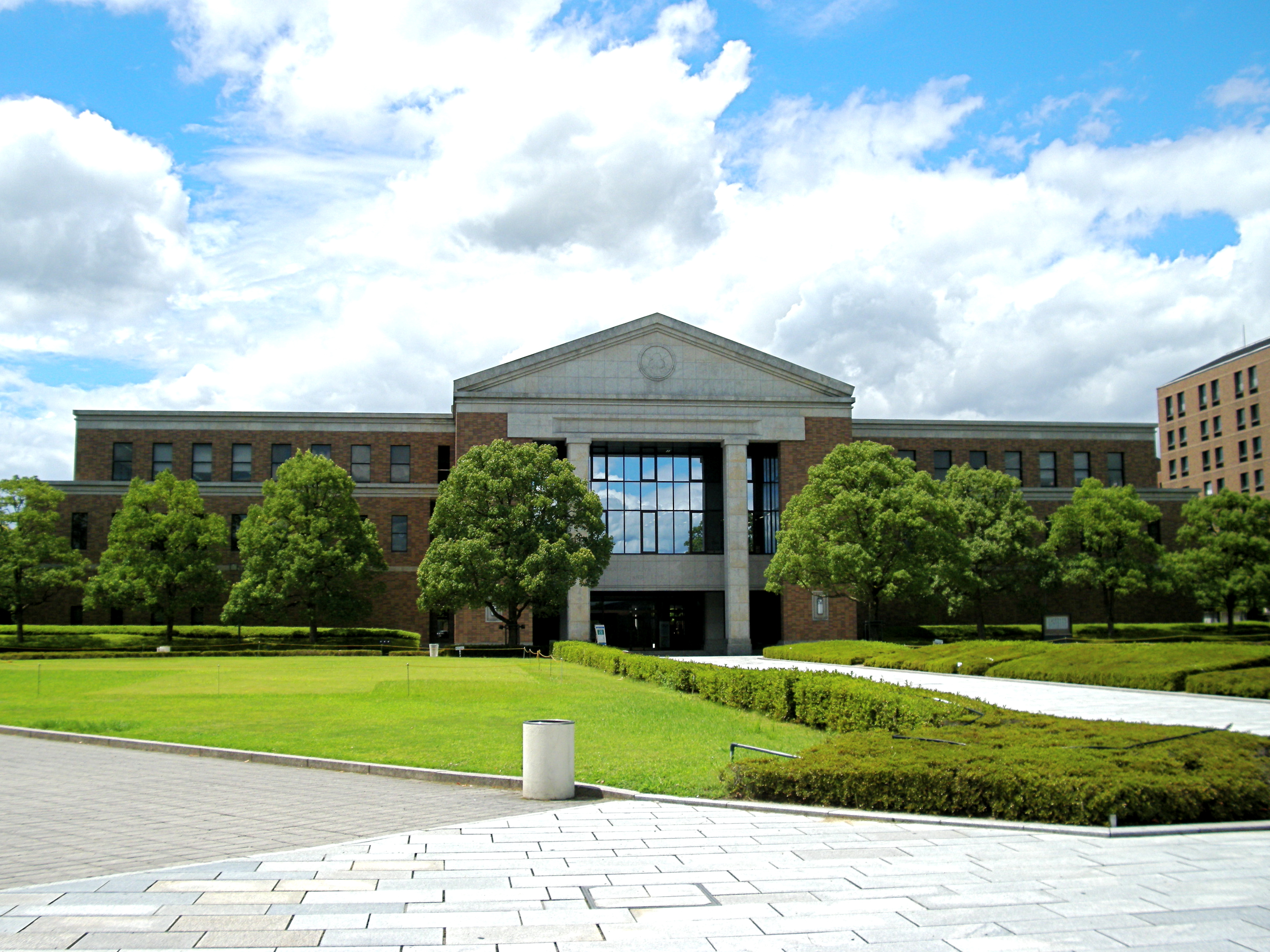 The Learned Memorial Library (Doshisha University)